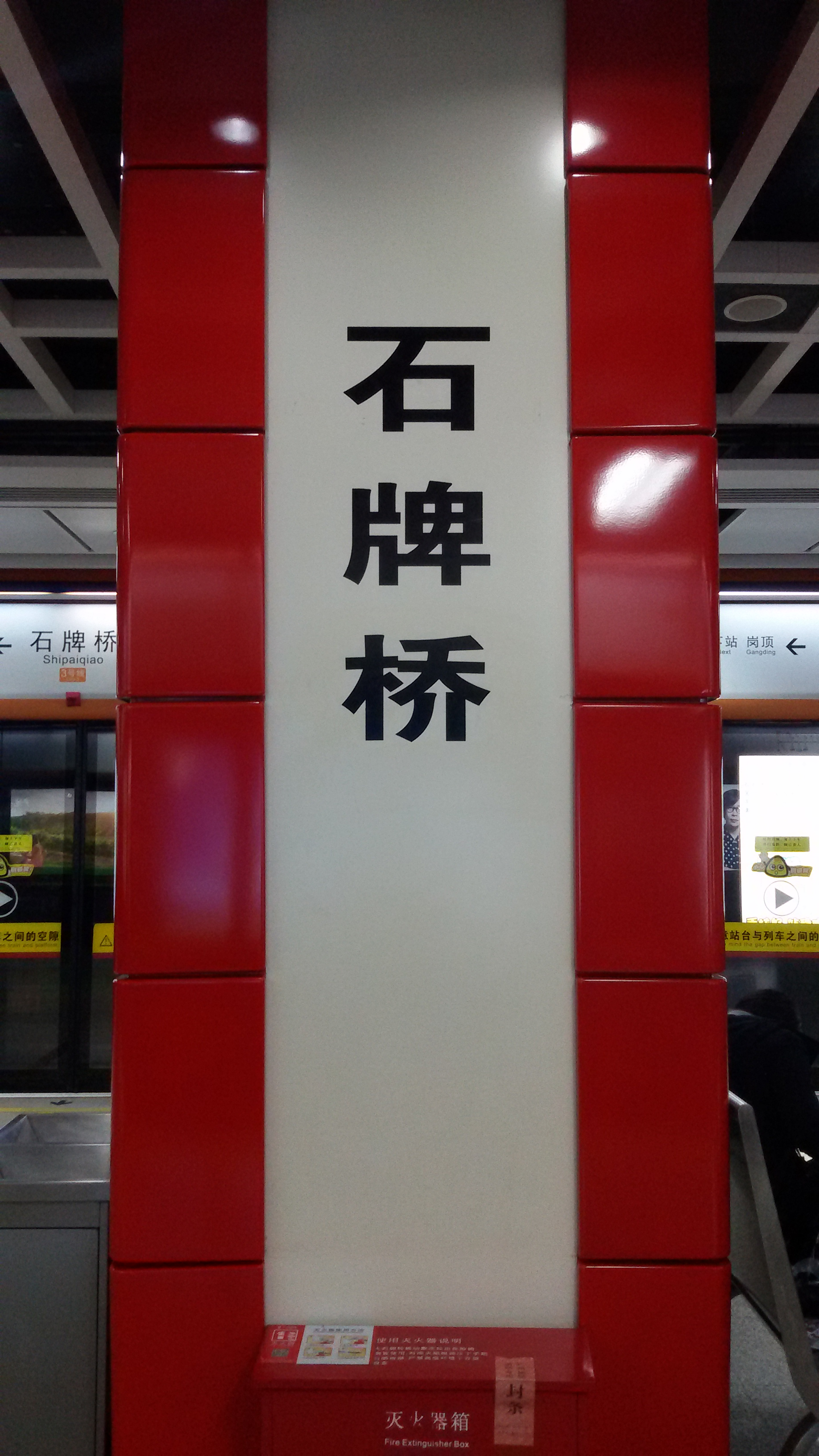 WORD on PILLAR for Shipaiqiao Station in Guangzhou Metro 粵語: 廣州地鐵，石牌橋站嘅柱上啲字。